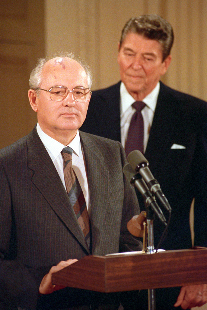 “Mikhail Gorbachev and Ronald Reagan”. General Secretary of the Communist Party of the Soviet Union Mikhail Gorbachev (left) and the US president Ronald Reagan after signing Soviet-US treaty on elimination of short-range and intermediate-range nuclear missiles in the White House in the course of Mikhail Gorbachev's official visit to the USA.